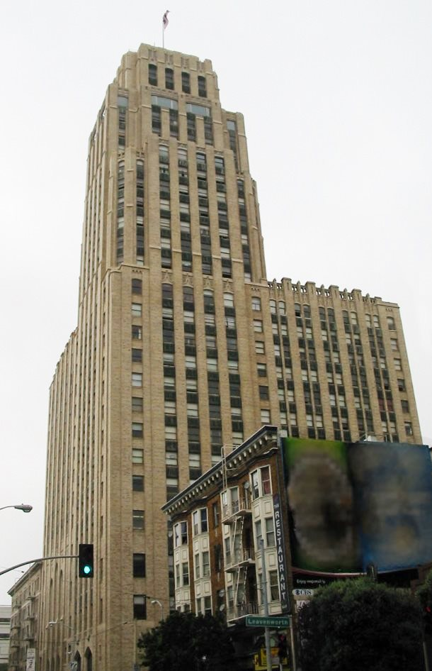 The 28-story building at 100 McAllister in San Francisco, California. Originally designed in 1927 by Miller and Pflueger for the Methodist Church, it was completed in 1930 by Lewis P. Hobart and opened as the luxurious William Taylor Hotel and Temple Methodist Church. In 1936, the hotel reopened under new ownership as the Empire Hotel which quickly became popular for its 24th-story Skyroom, the first view lounge bar in San Francisco. In World War II, the building was acquired by the US government for use as offices by the Internal Revenue Service, the Army's Ordnance Procurement department and the local draft board. In 1978, the University of California's Hastings School of Law purchased the building to use as student apartments. It also houses several political action groups and legal assistance organizations.